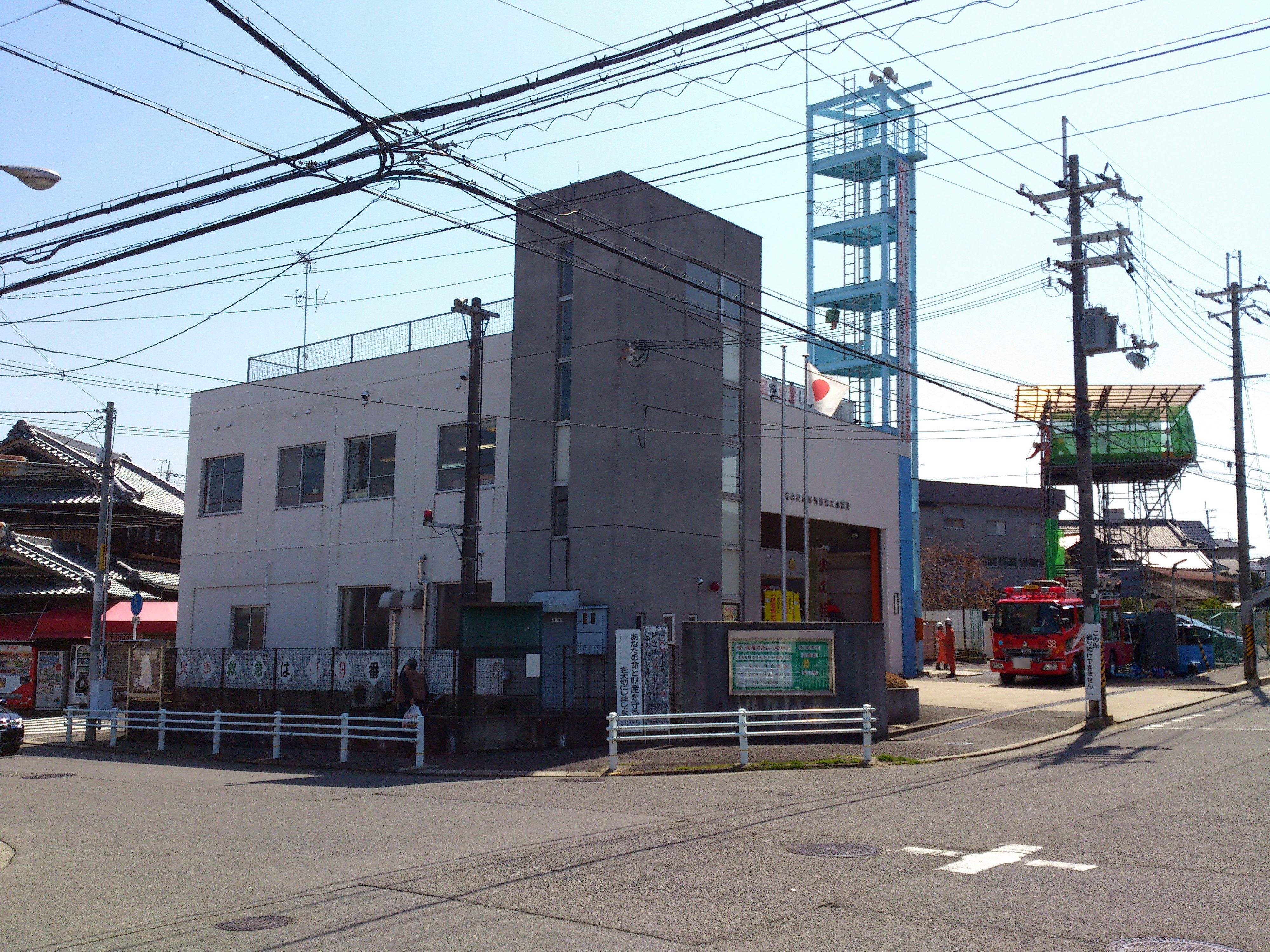 Kawachinagano Fire Station Kita-shucchojo